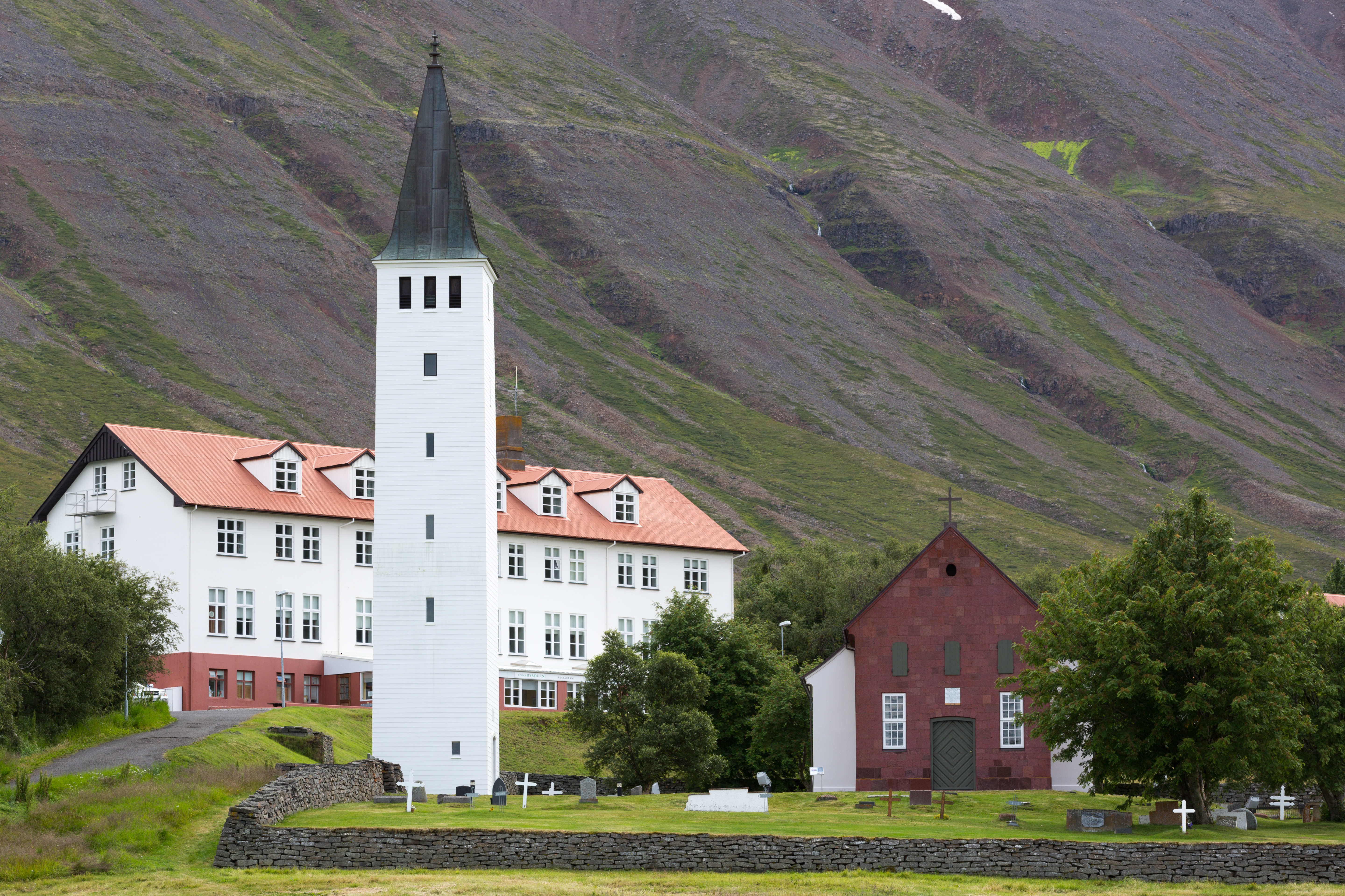 Holar church